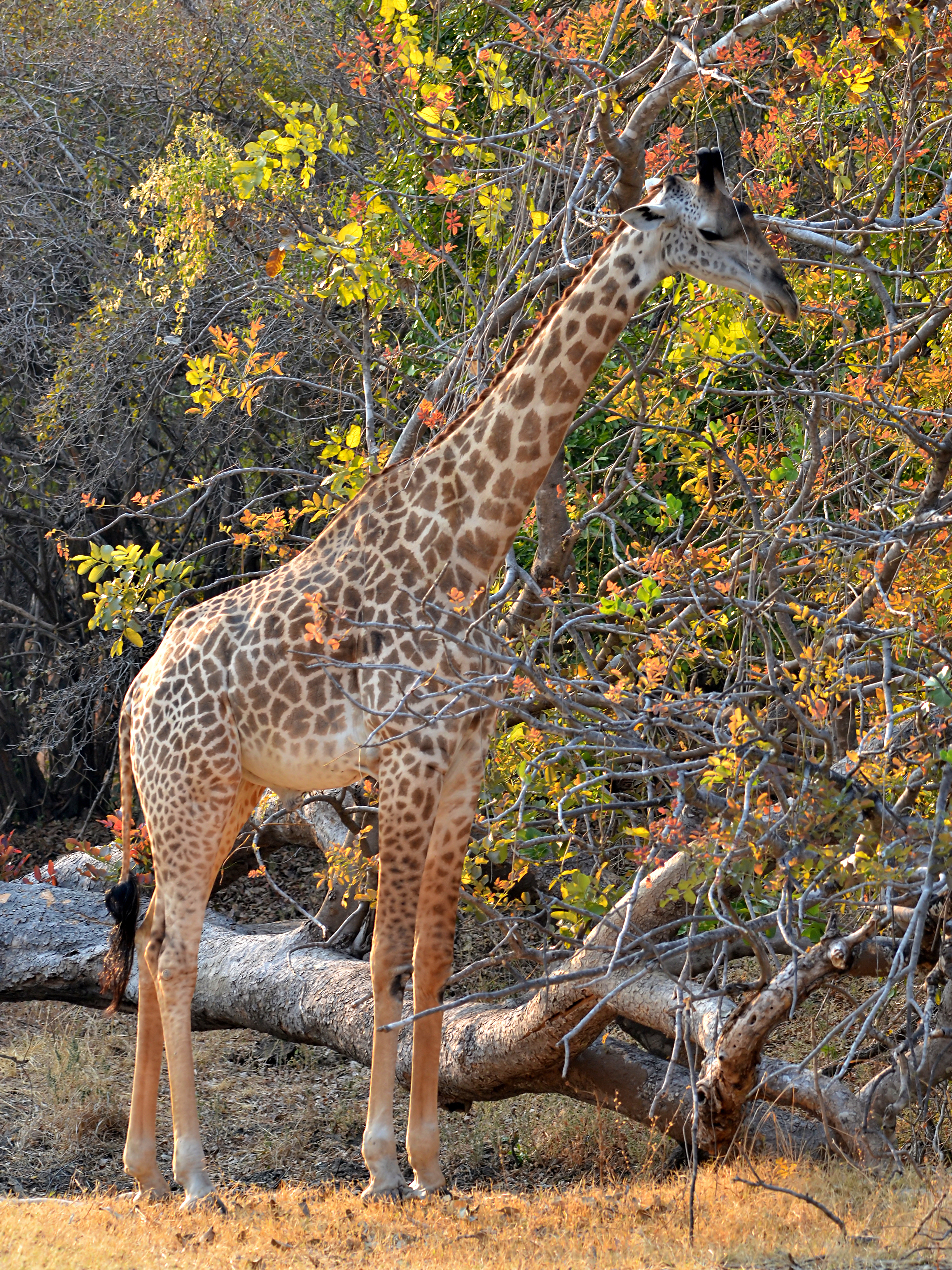 Rhodesian giraffe at South Luangwa National Park, Zambia.